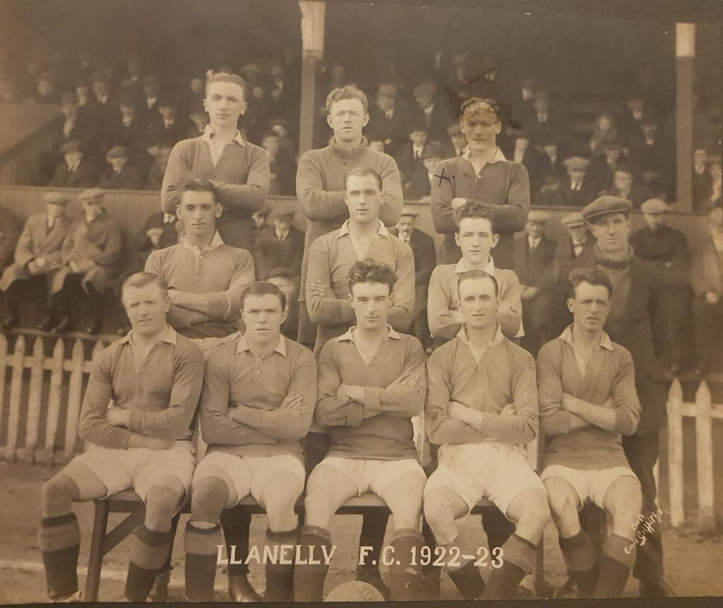 Sydney at Llanelly FC